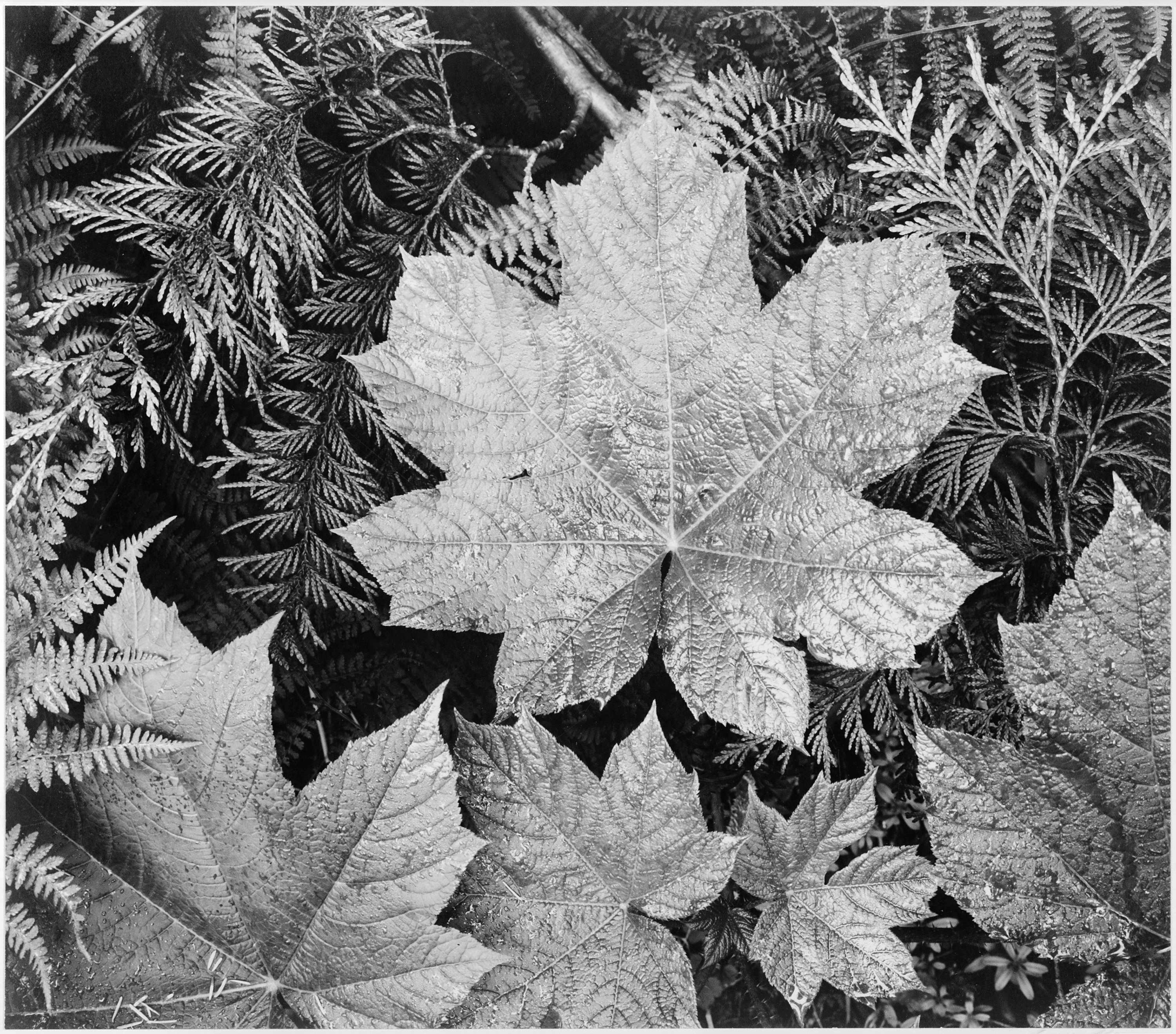 Close-up of leaves, from directly above, "In Glacier National Park," Montana; From the series Ansel Adams Photographs of National Parks and Monuments, compiled 1941 - 1942, documenting the period ca. 1933 - 1942.